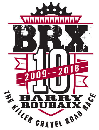 This image file depicts the commemorative logo for the 10th anniversary edition of the Barry-Roubaix bicycle race.